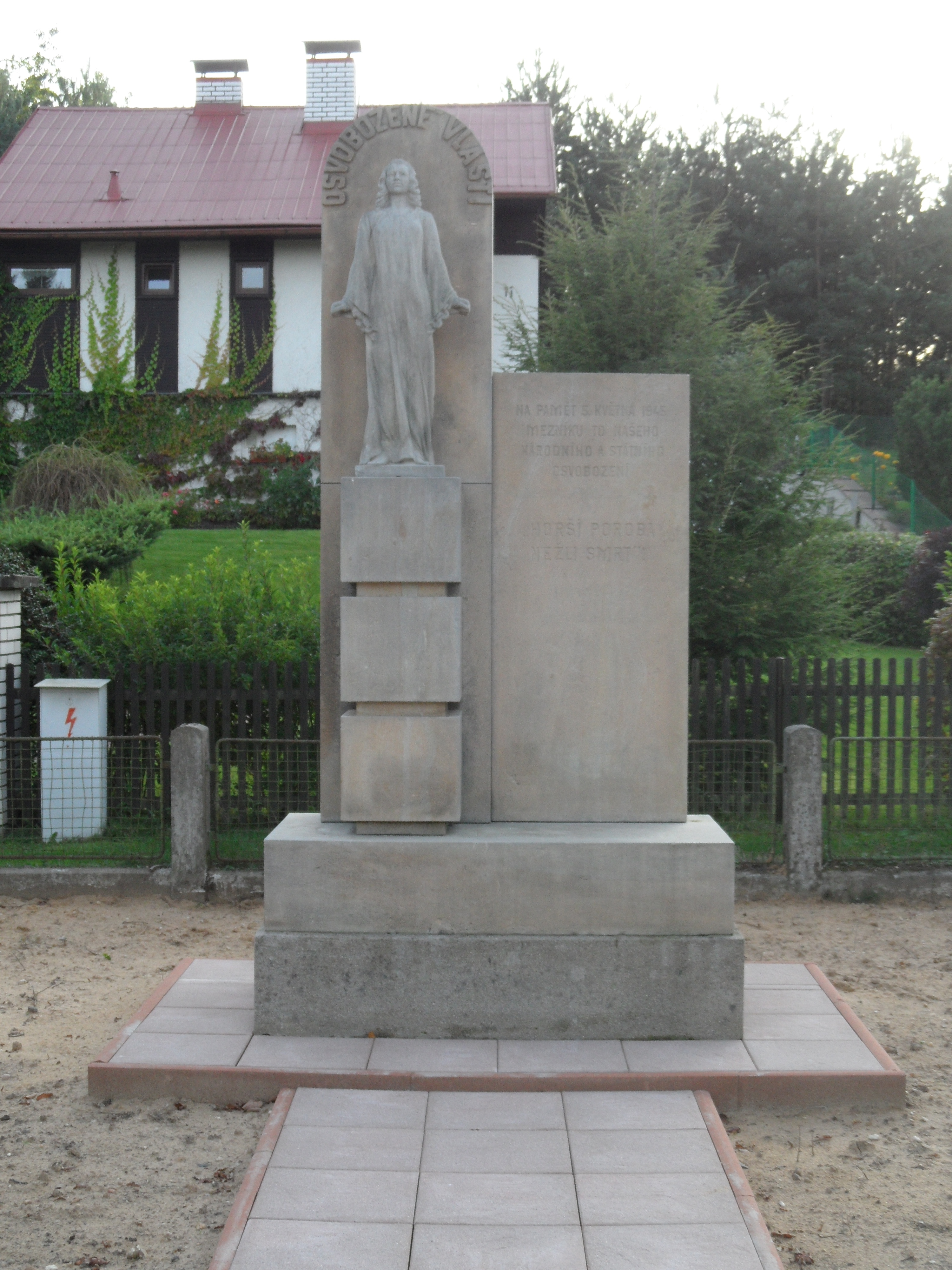 Bílé Vchynice (Kladruby nad Labem) G. Memorial of Victims of WW2, Pardubice, the Czech Republic.